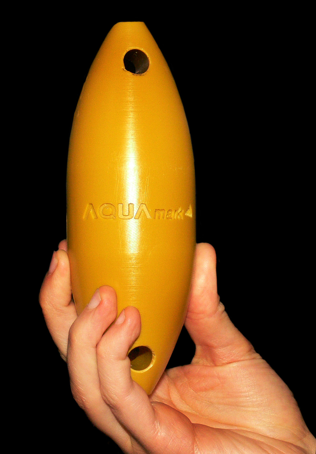 Pinger, Acoustic deterrent device.